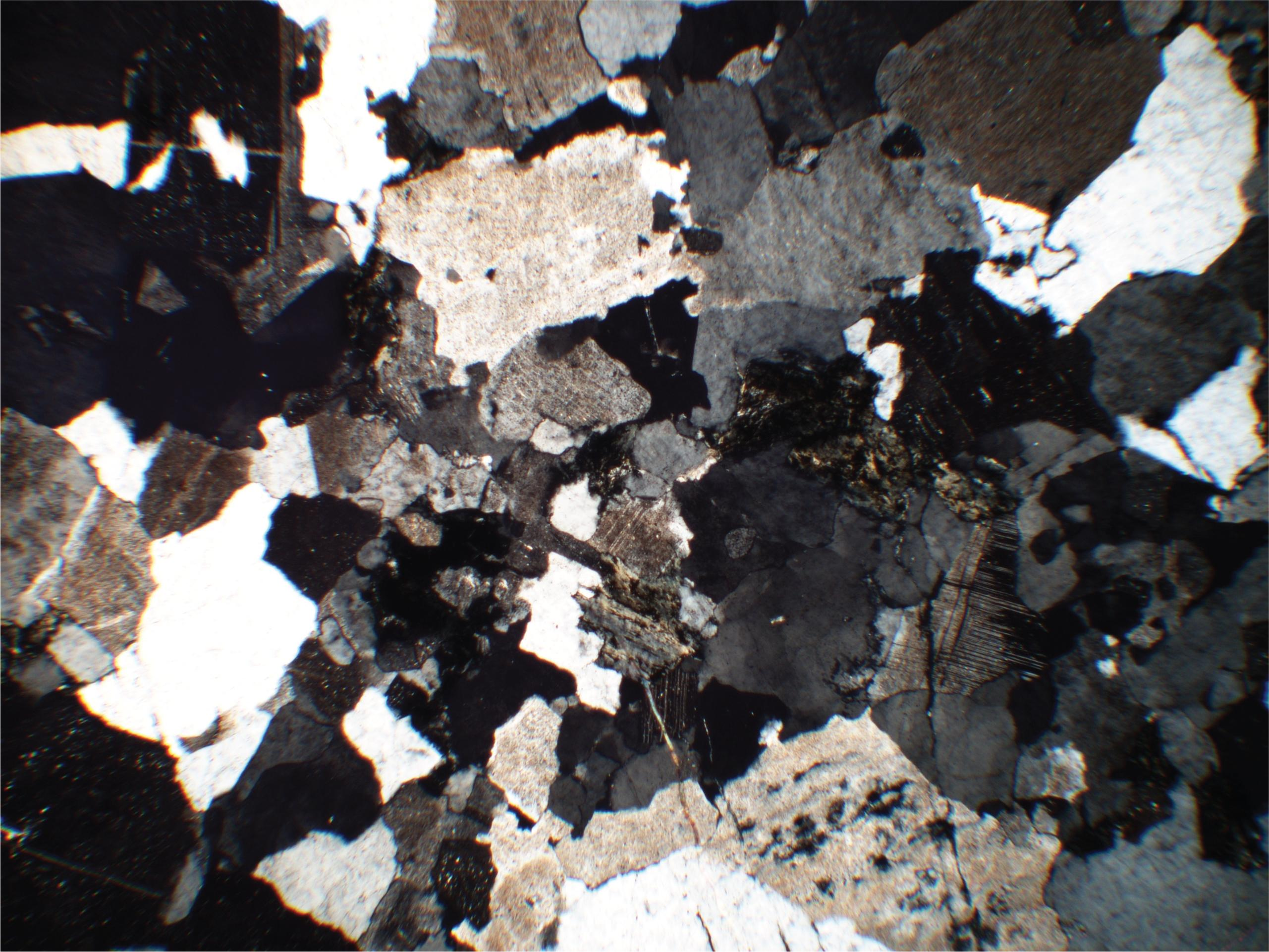 Thin section of an aplite dike in the Piégut-Pluviers Granodiorite, red facies. Magnification is 1:50. Contains chloritized biotite, quartz with subgrain development, microcline and plagioclase having undergone Fe-metasomatism. Courtesy Lorence G. Collins.